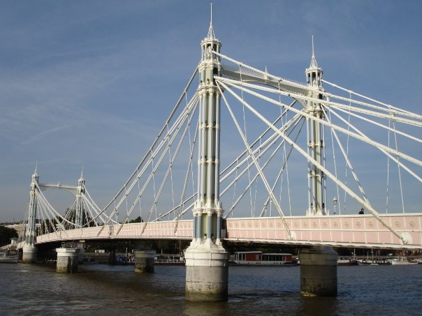 Albert Bridge, London